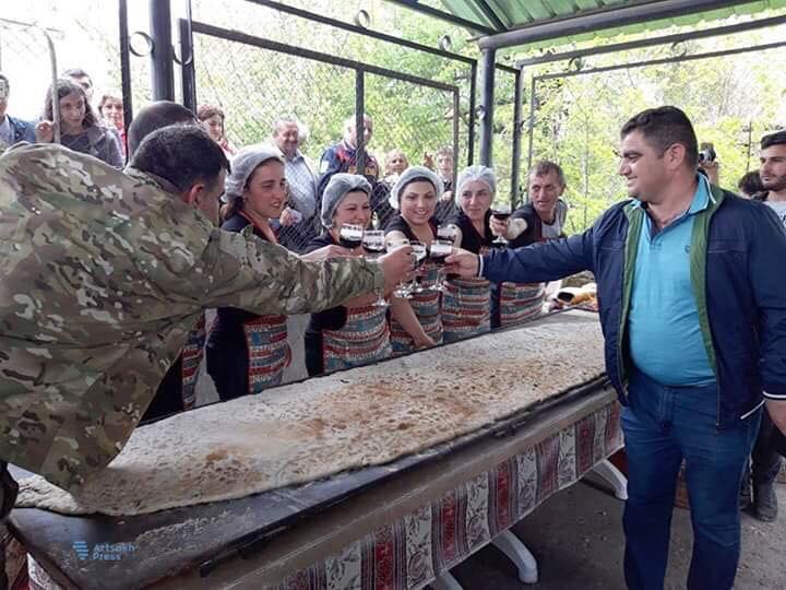 zhengyalov hats rekord 5